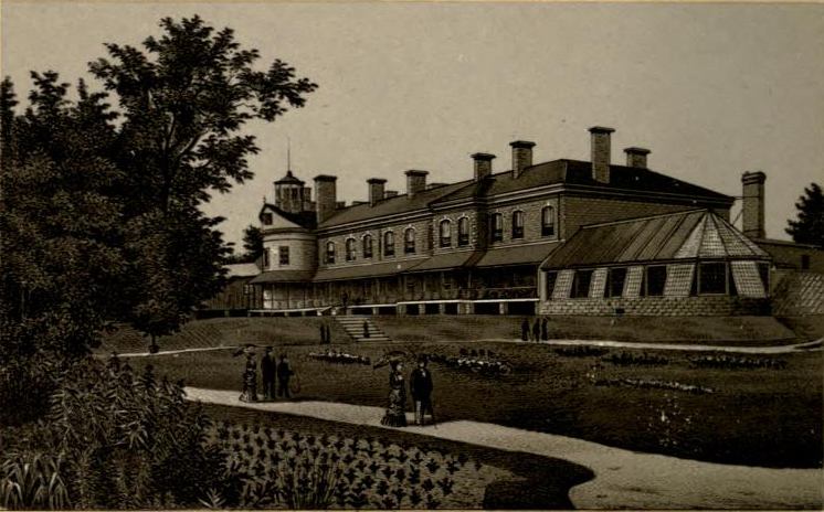 Rideau Hall in book Views of Ottawa (1884)